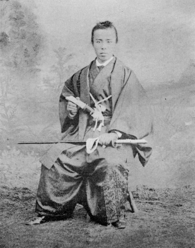 Rinshō Mitsukuri, taken while staying in France.